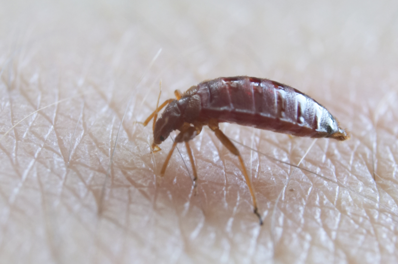 bedbug (Cimex sp.)